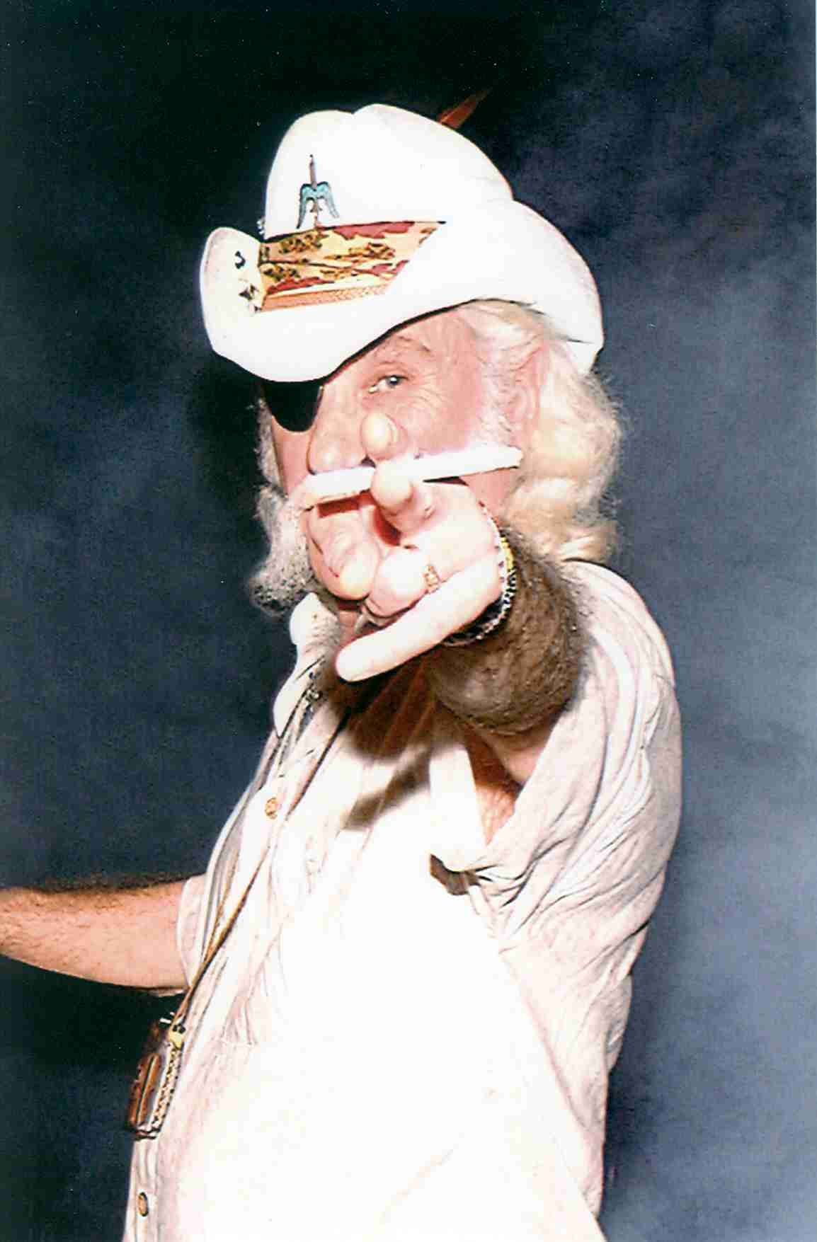 Ray Sawyer (1937-2018) Lake of The Ozarks, circa 2000